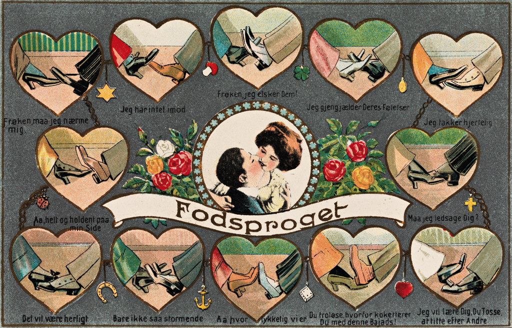 Motiv / Motif: Postkort / Postcard. Dato / Date: 1920-årene Kunstner / Artist: ukjent / unknown Eier / Owner Institution: Nasjonalbiblioteket / National Library of Norway Lenke / Link: Bildesignatur / Image Number: blds_03788